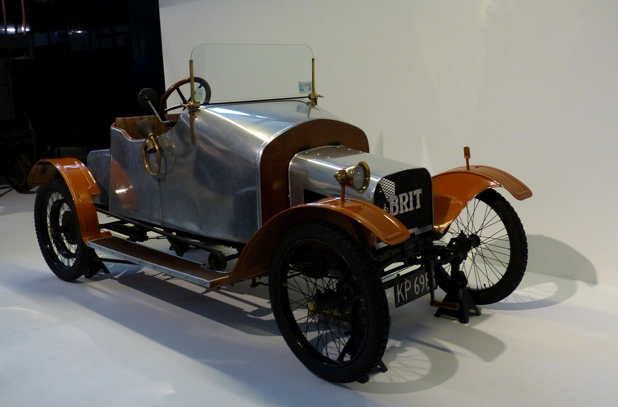 Cyclecars were propelled by single-cylinder, V-twin or more rarely four-cylinder engines, often air-cooled. Sometimes these had been originally used in motorcycles and other components from this source such as gearboxes were also employed. Cyclecars were halfway between motorcycles and cars and were fitted with lightweight bodies, sometimes in a tandem two-seater configuration and could be primitive with minimal comfort and weather protection. They used various layouts and means of transmitting the engine power to the wheels, such as belt drive or chain drive often to one rear wheel only to avoid having to provide a differential. The Britannia was a British 4-wheeled cyclecar made in 1913 and 1914 by Britannia Engineering Co. Ltd based in Nottingham. The car was powered by an air-cooled, two-cylinder, two-stroke engine driving the rear wheels by a four-speed gearbox and belts